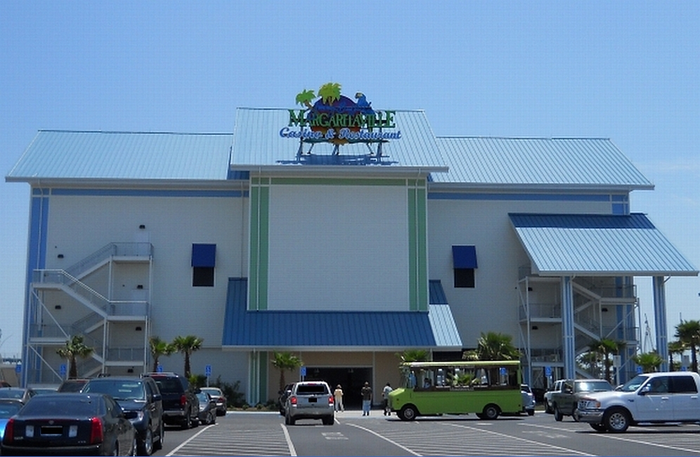 Front view of Margaritaville Casino and Restaurant located on Back Bay, Biloxi, Mississippi, USA.